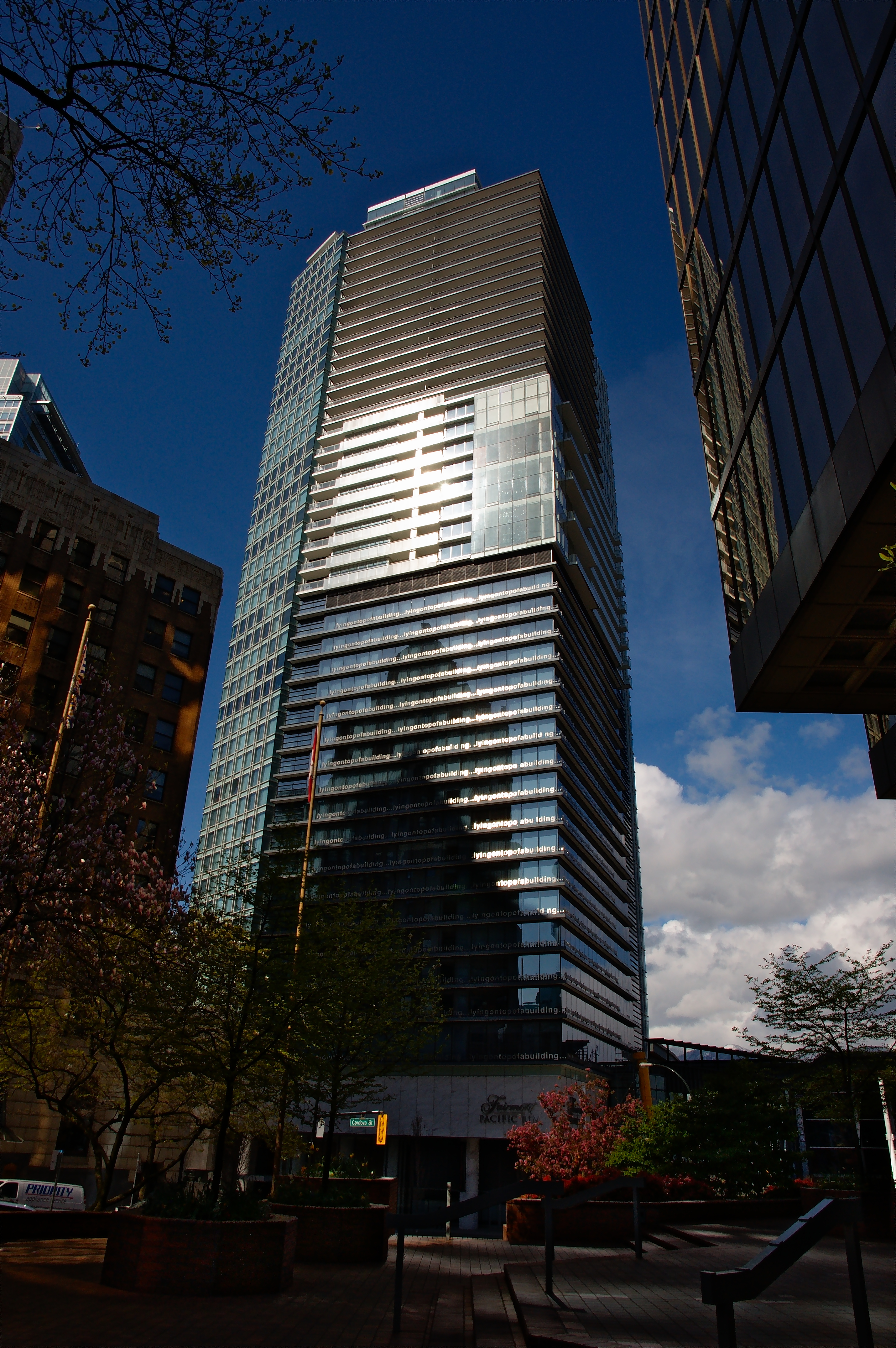 Fairmont Pacific Rim hotel and residences, downtown Vancouver British Columbia.